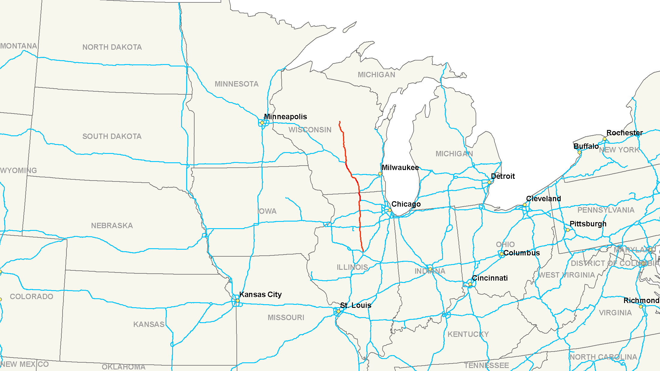 Map of Interstate 39